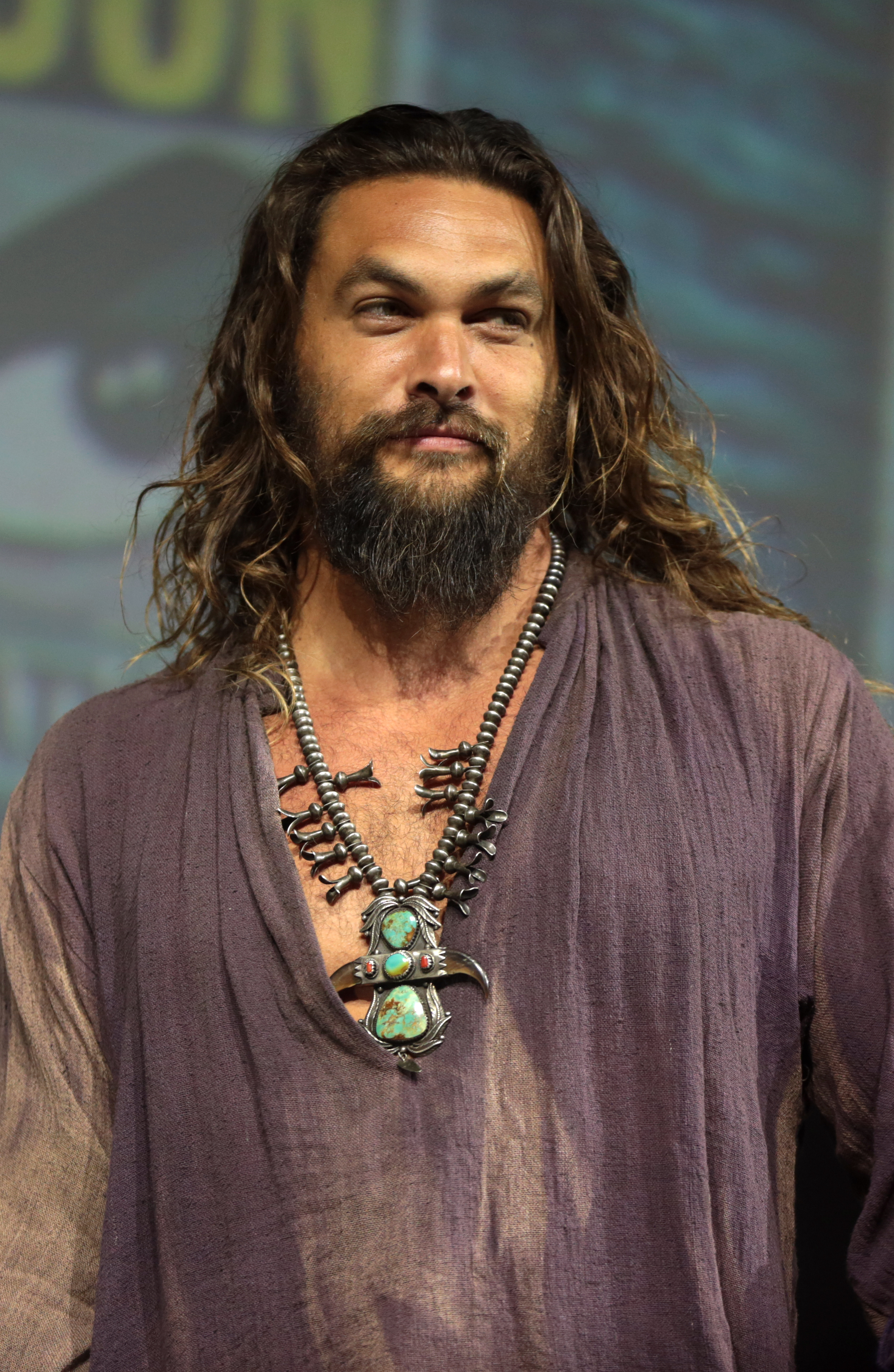 Jason Momoa speaking at the 2018 San Diego Comic Con International, for "Aquaman", at the San Diego Convention Center in San Diego, California.